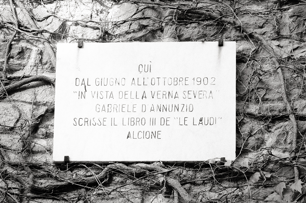 Gabriele D'Annunzio: Alcyone Memorial Tablet at the Castle of Romena in Casentino, Tuscany.